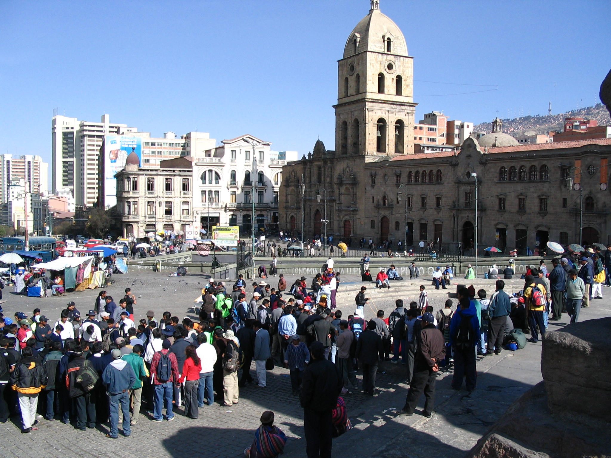 Place San Francisco in La Paz, Bolivia Photo's Author : User:Anakin